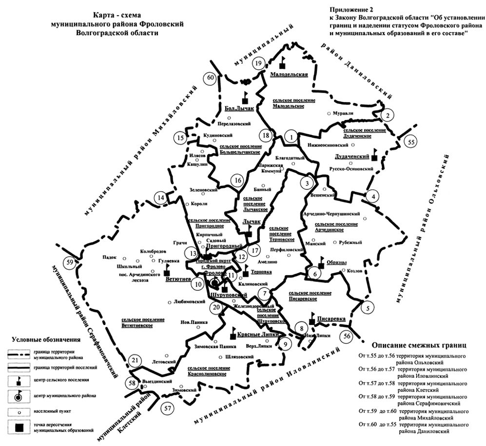 Map of municipal district Frolovsky of Volgograd Oblast